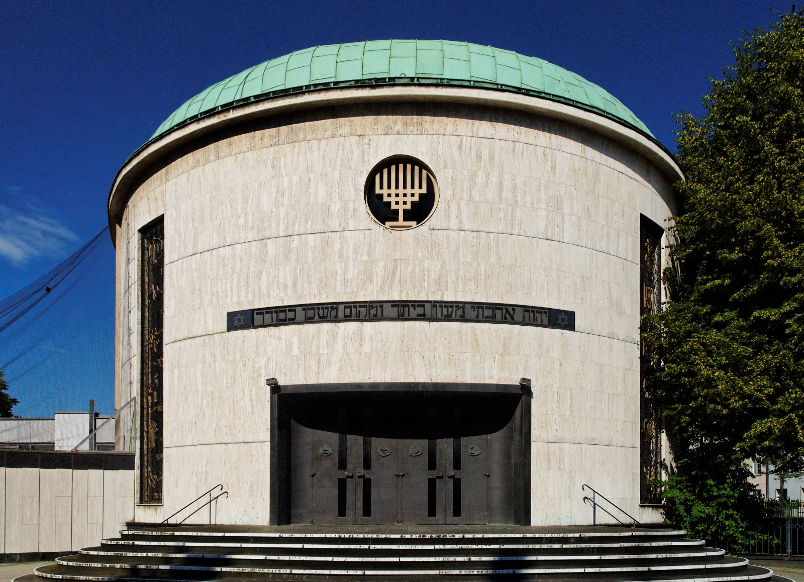 New Synagogue in Düsseldorf-Golzheim, Germany